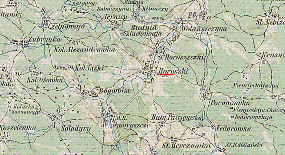 The area around Horoszki (Volodarsk-Volynskyi) on a military Austrian map